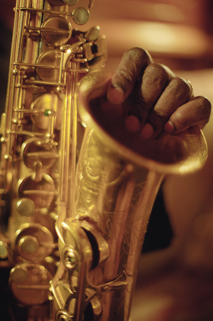 Hamburg/Germany 2000